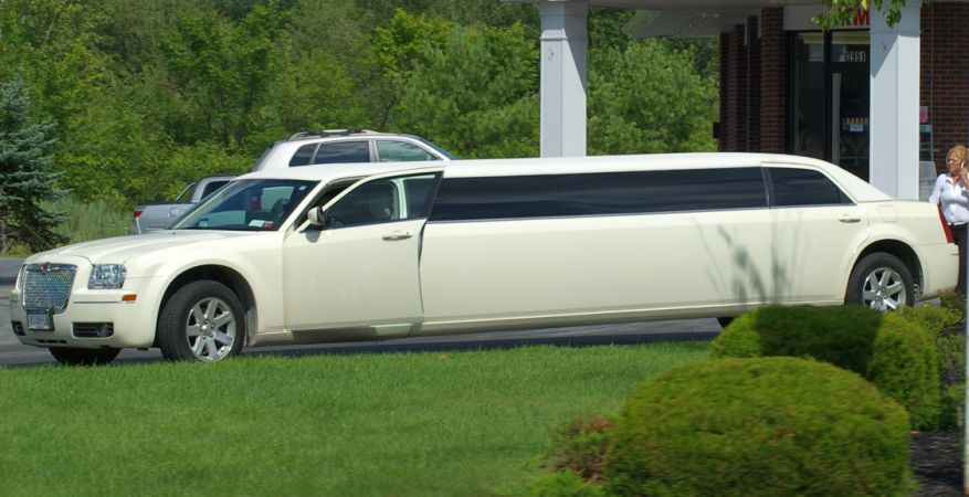 Stretch limousine based on the Chrysler 300C.